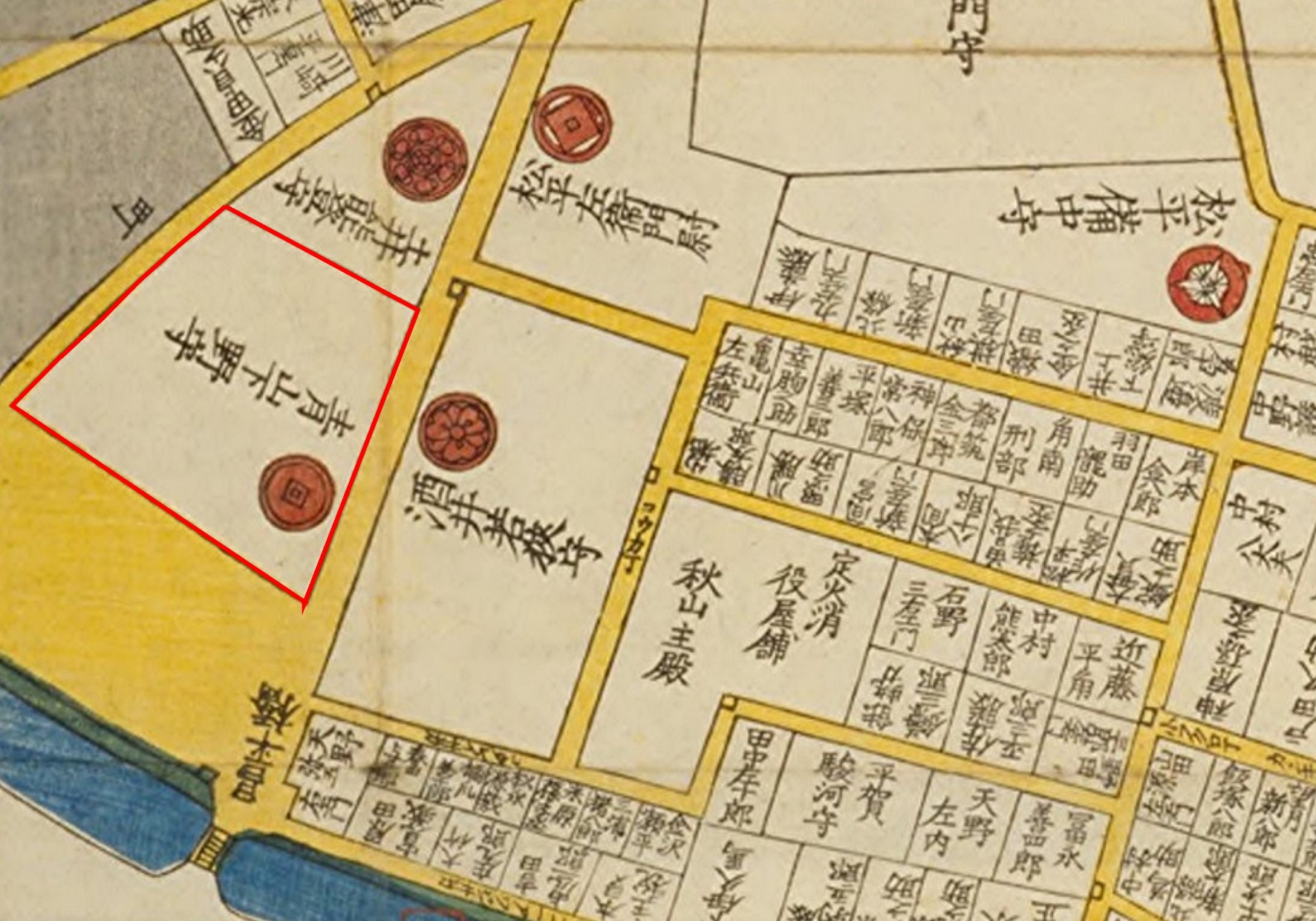 Residence of Sasayama-Aoyama at Edo